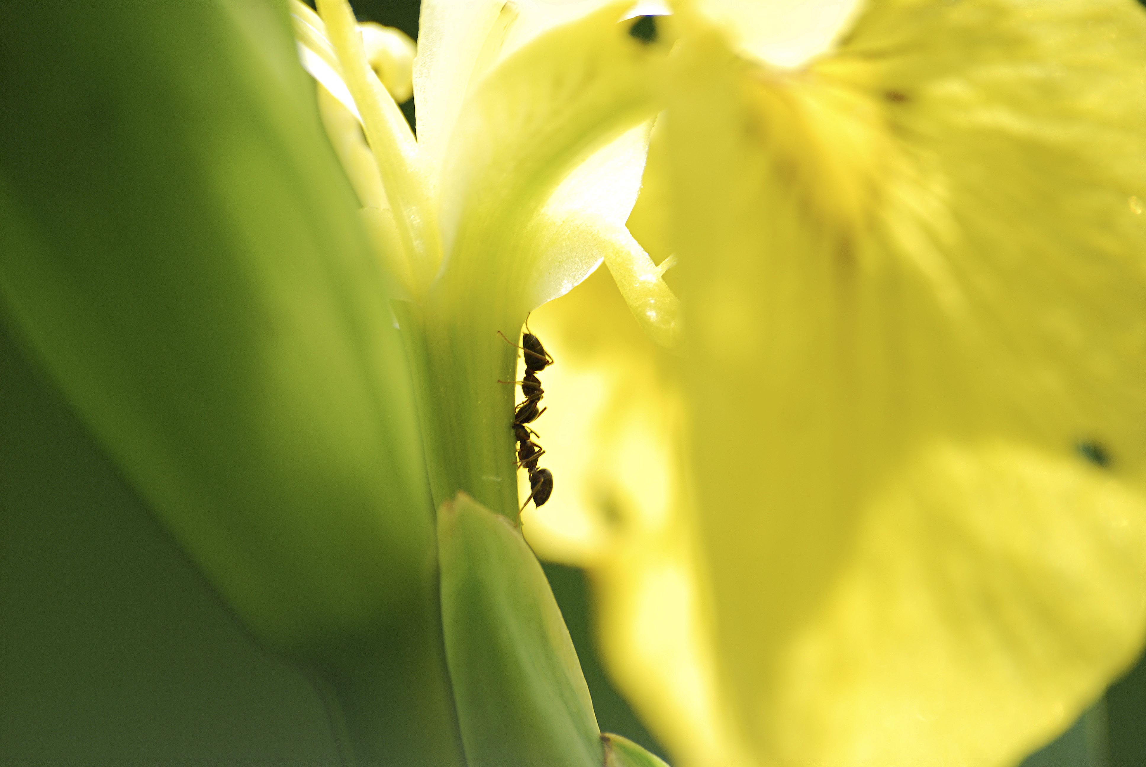 Black garden ants (Lasius niger), exchanging food through trophallaxis on Iris flower